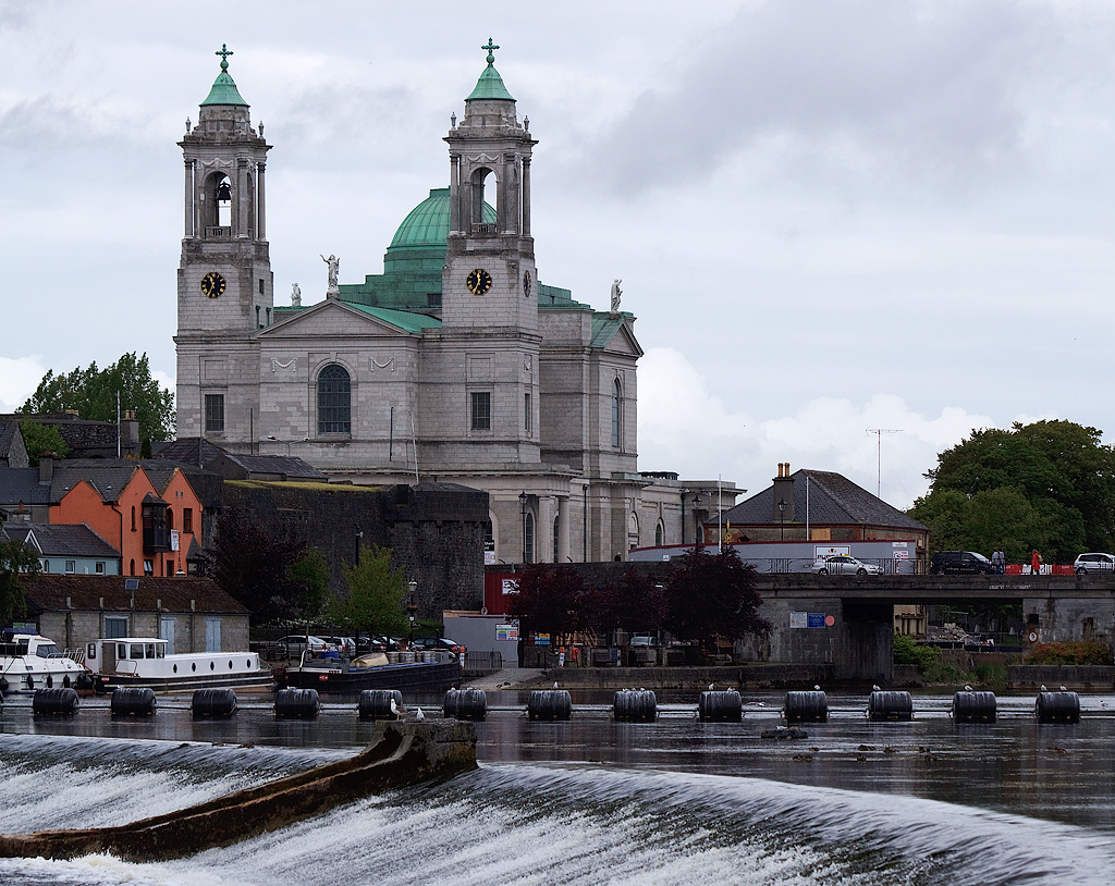 St Peter & Paul's church, Athlone